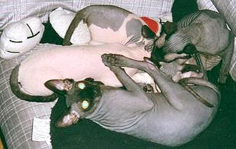 Sphynxs cats